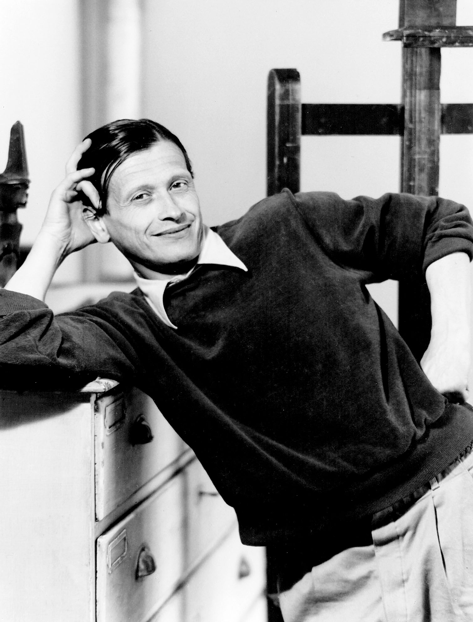 Ernst Paar in his studio